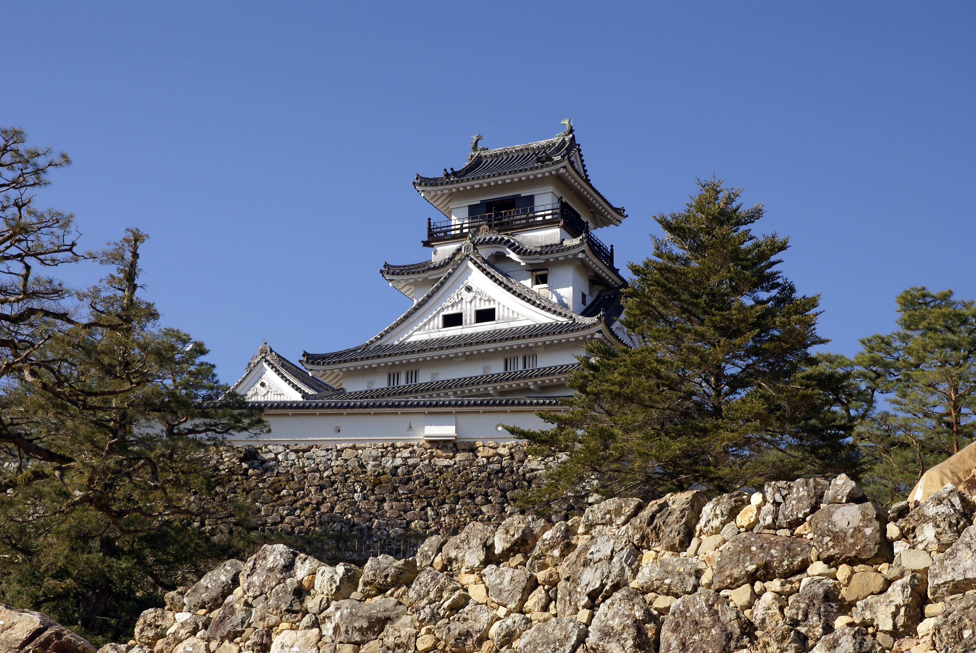 Kochi Castle in Kochi, Kochi prefecture, Japan